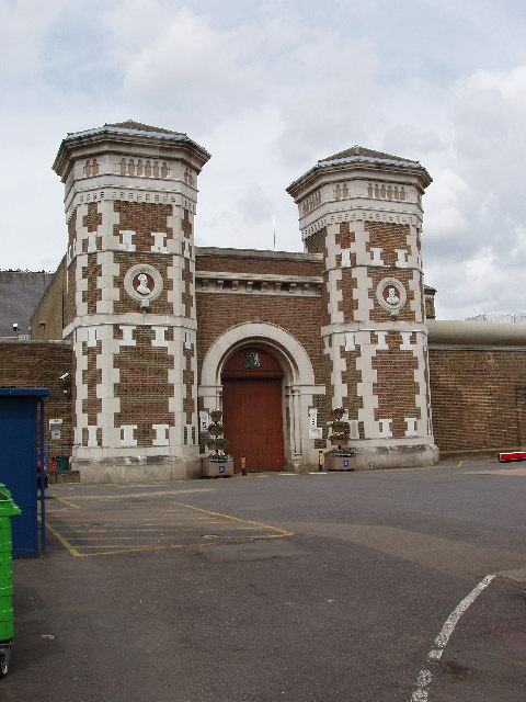 Wormwood Scrubs Prison Built by prison labour 1874-1890. Houses about 1000 prisoners, the largest prison for males in Britain.